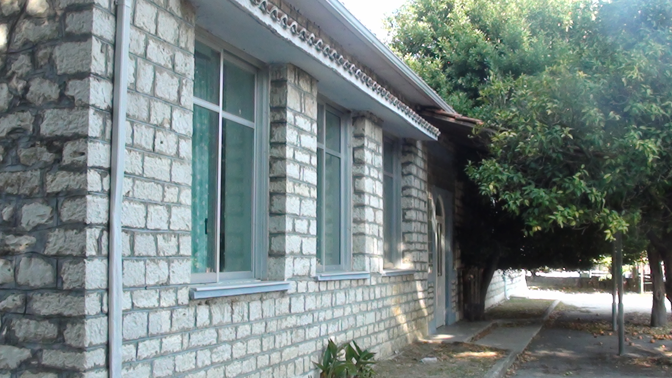 Petra Prevezas' School